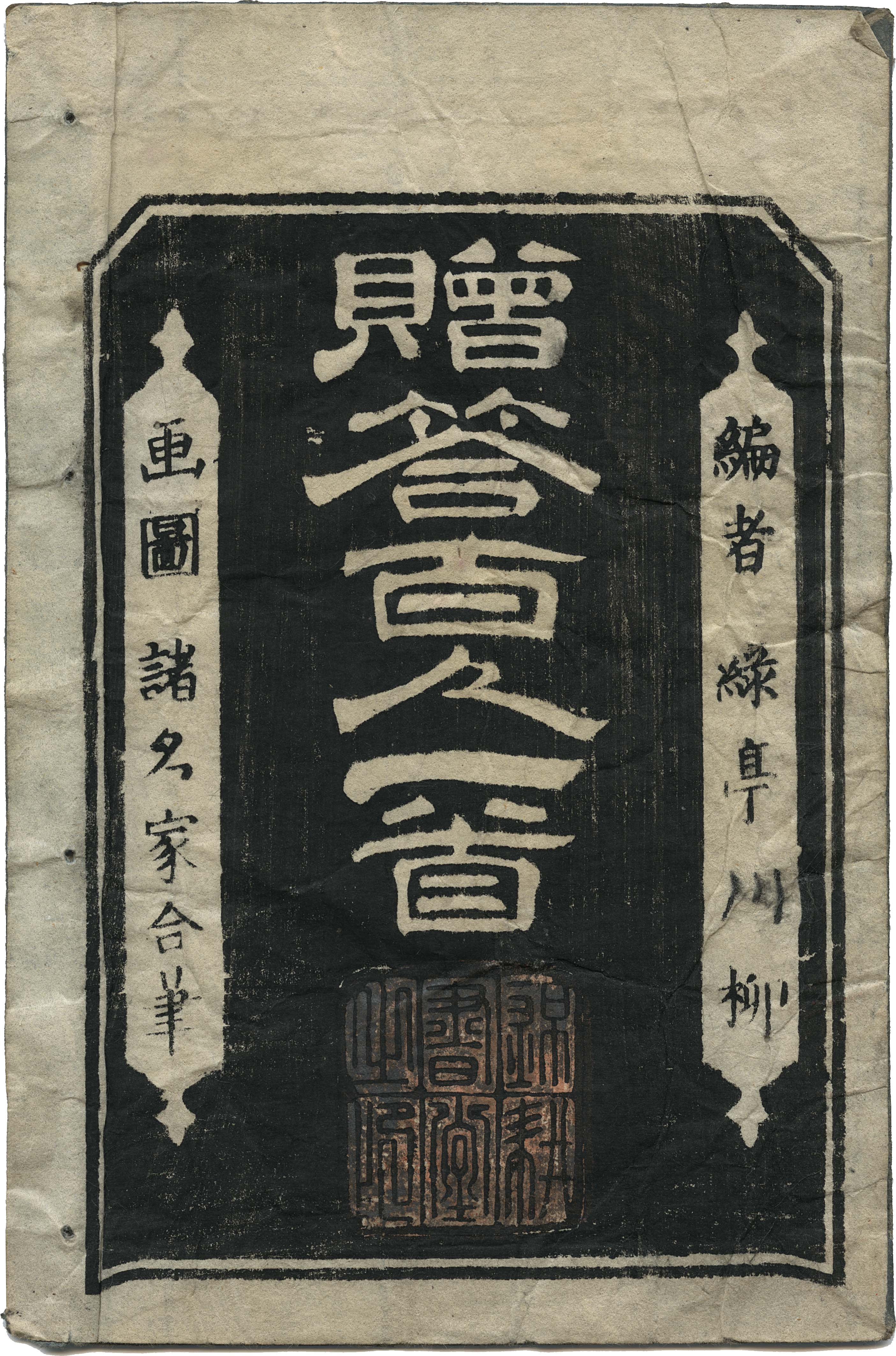 Reminder: No known copyright restrictions. Please credit UBC Library as the image source. For more information see Japanese Title:贈答百人一首& ; 贈答百人一首.全 ; 贈答百首 Date: Kaei 6 [1853] Creator: Henshu_ Ryokutei Senryu_ ; kuchiga Katsushika Isai ; Sh_z_ Ichiyu_sai Kuniyoshi, Ichimo_sai Yoshitora, Gyokuransai Sadahide, Baicho_ro_ Kunisada, Ichiyo_sai Toyokuni Access Identifier: Mostow_005 Source: Original Format: Professor Joshua Mostow Private Collection. One Hundred Poets (Hyakunin isshu) Collection. Permanent URL